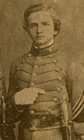 (1829 -1864) Civil War Confederate Army Officer. He served during the Civil War as Lieutenant Colonal and commander of the 2nd South Carolina Infantry, and was killed during the Battle of The Wilderness.